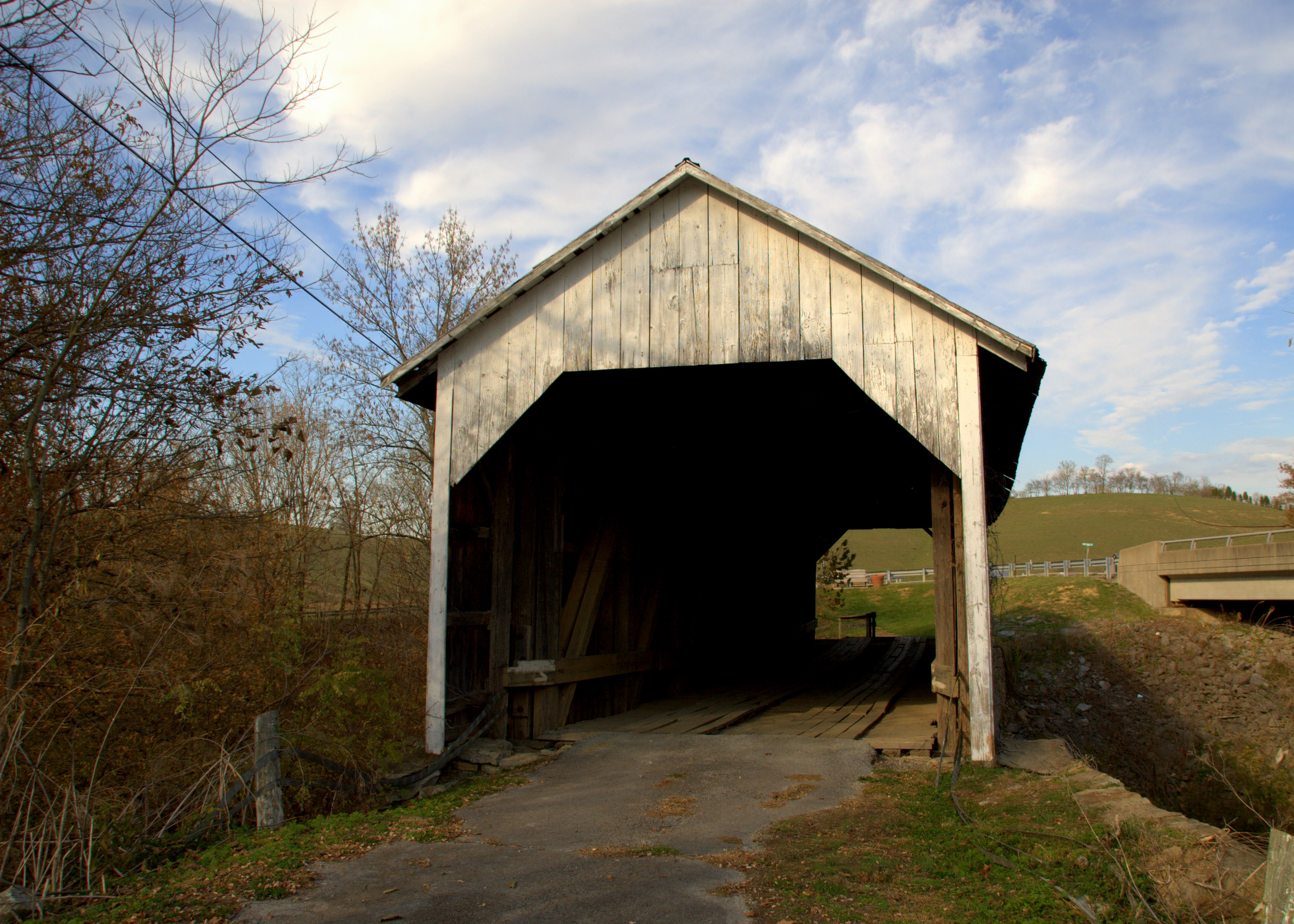 Hillsboro Covered Bridge in Fleming County, Kentucky. Photo by Greg Hume